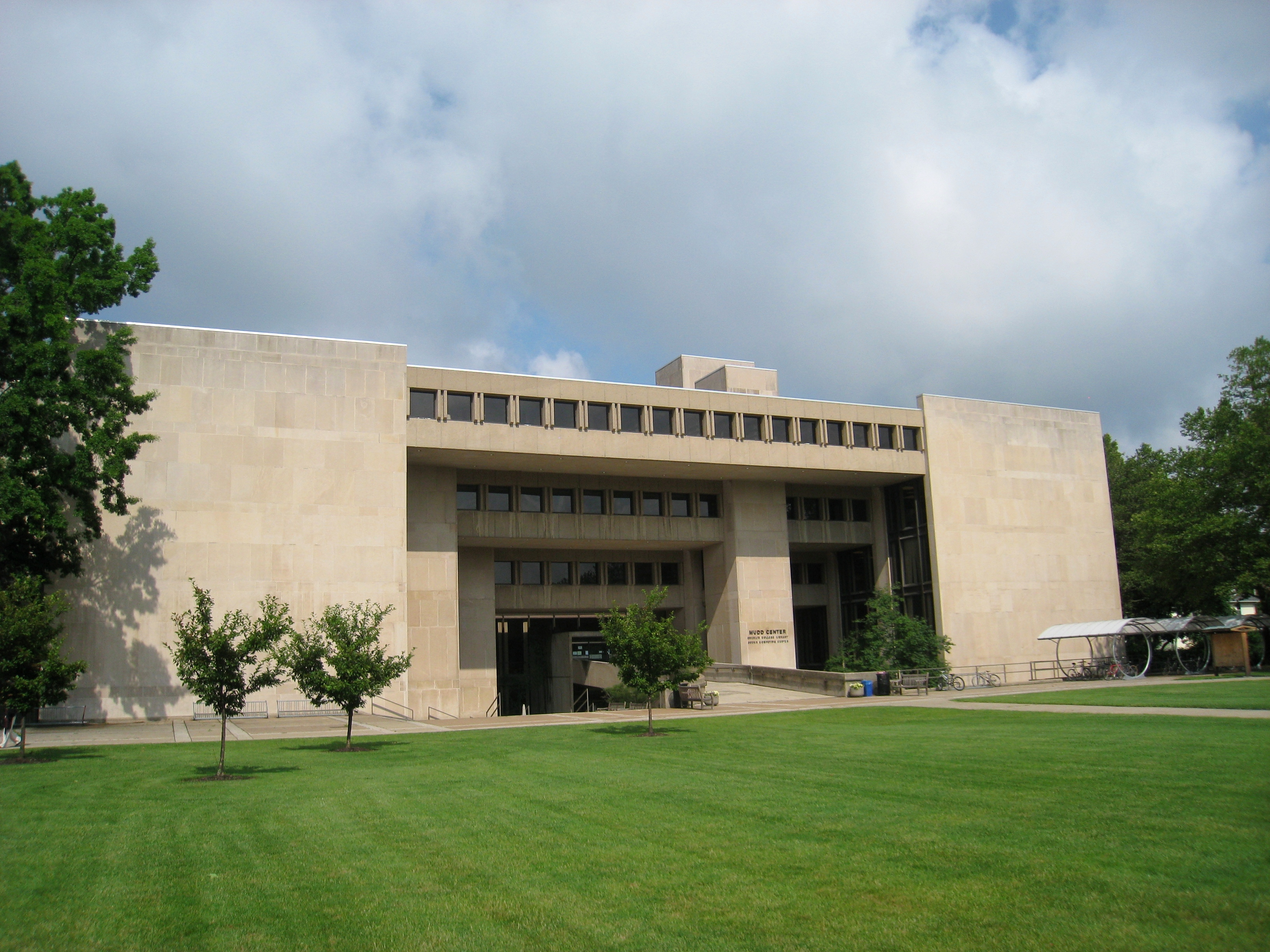 Mudd Learning Center, Oberlin College, Oberlin, Ohio, USA. Architects: Warner, Burns, Toan & Lundy, 1974. I took this photograph.